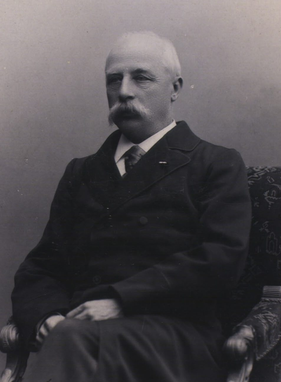 Peter Godtfred Ramm, Danish military officer, owner of Vodroffsgård and local politician in Frederiksberg